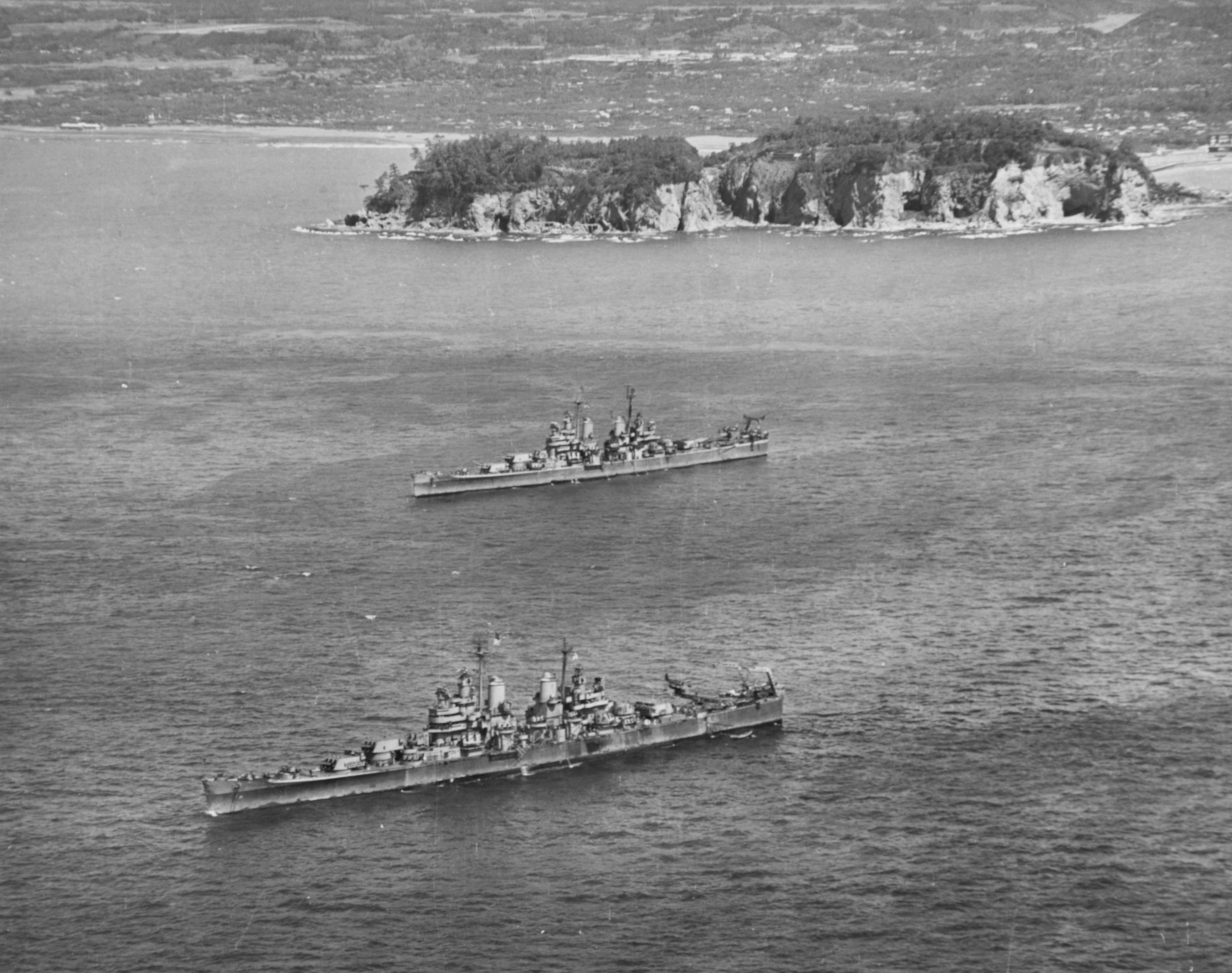 Surrender of Japan, 1945: Two U.S. Third Fleet heavy cruisers anchored in Sagami Wan, outside of Tokyo Bay, Japan, 28 August 1945. The closest ship is USS Quincy (CA-71), the other is USS Boston (CA-69).